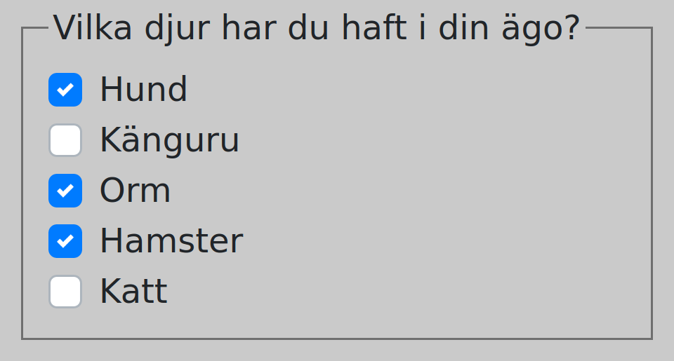 Example of some checkboxes in Swedish using Boostrap